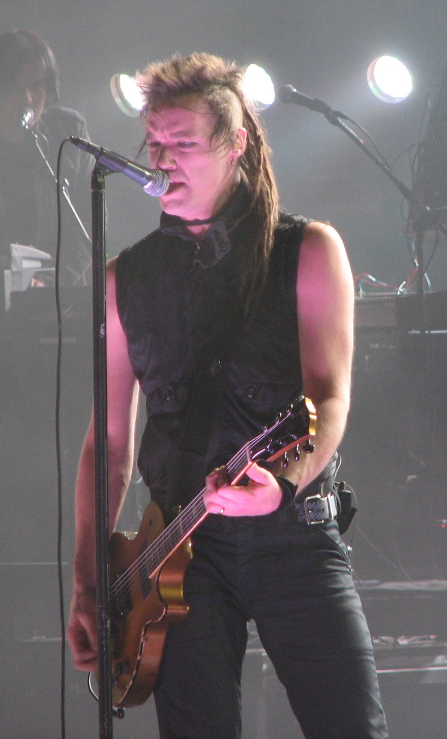 Robin Finck performing with Nine Inch Nails at the September 5th, 2008 concert in Oakland, California.